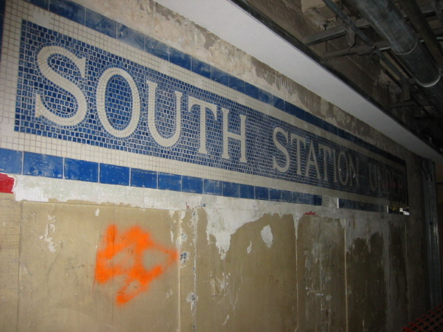 South Station Under tile mosaic discovered during renovations on the Red Line platforms in 2005